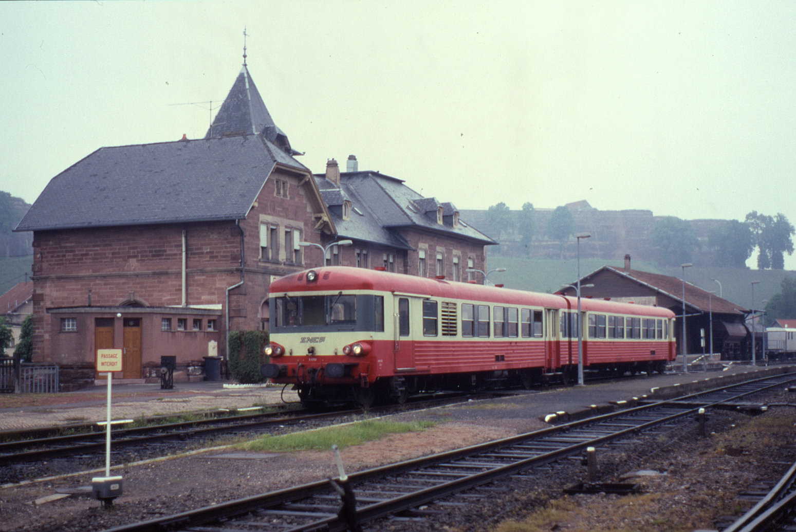 X 4352 and X 8339 at Bitche on 6 June 1991 with train 68194, 07:40 Bitche to St Avold.